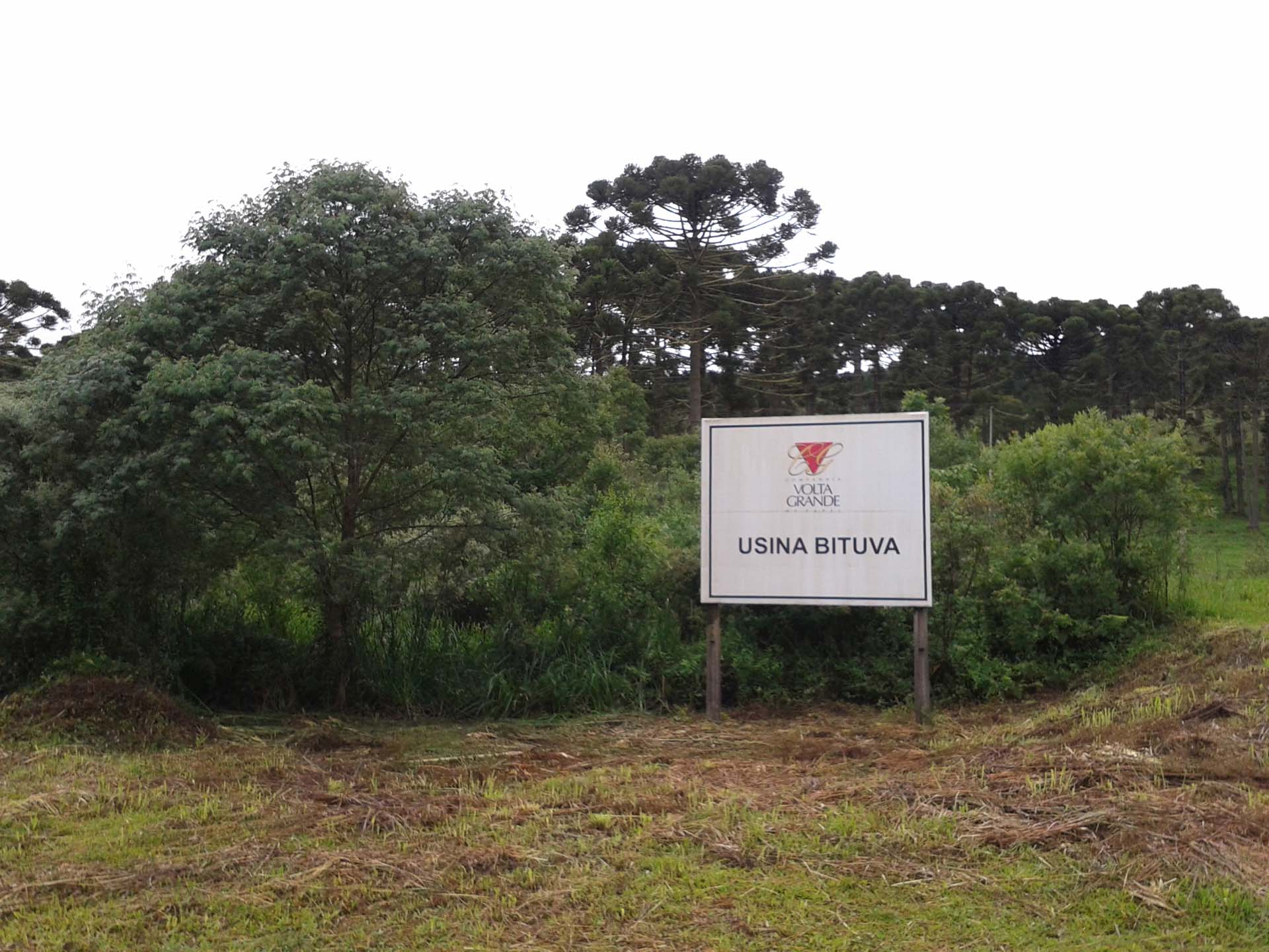 Placa da usina Bituva